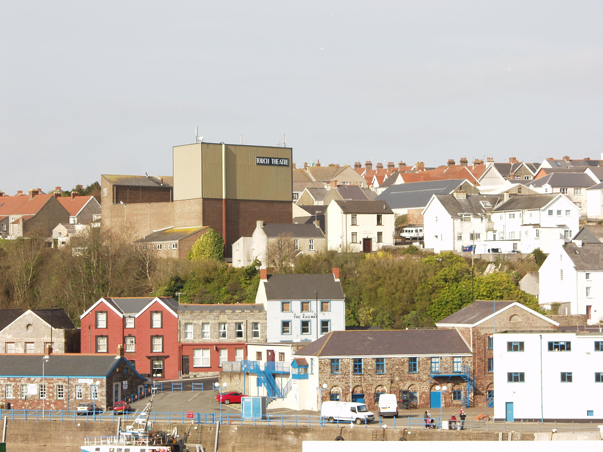 Torch Theatre, Milford Haven